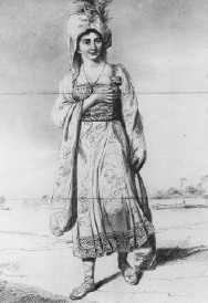 A sketch of Princess Caraboo, by Edward Bird.